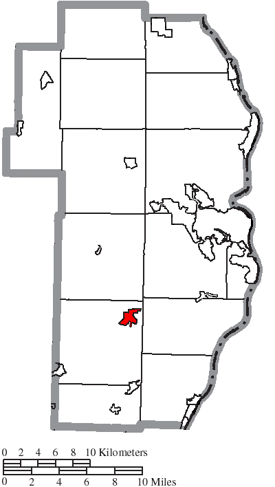 Map of the municipal and township boundaries of Jefferson County, Ohio, United States, as of the 2000 census, with the location of the village of Smithfield highlighted. Township borders are shown only in unincorporated areas in order to differentiate incorporated and unincorporated areas more clearly.